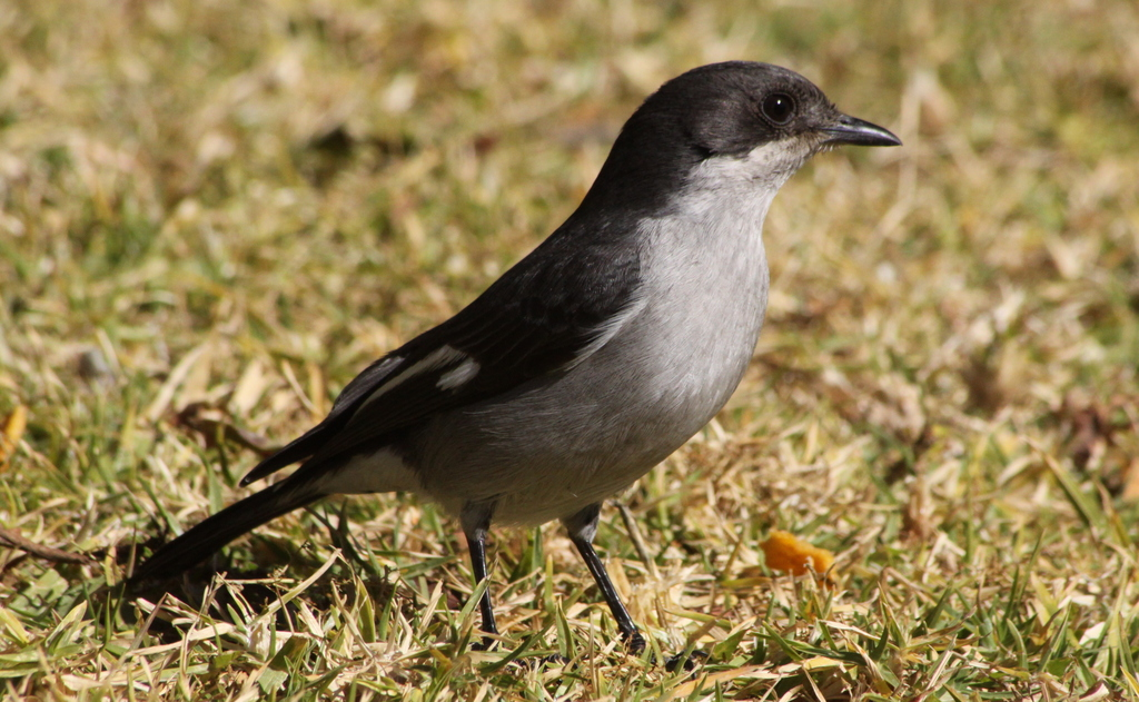 A female Fiscal Flycatcher at Pretoria National Botanical Garden, South Africa.